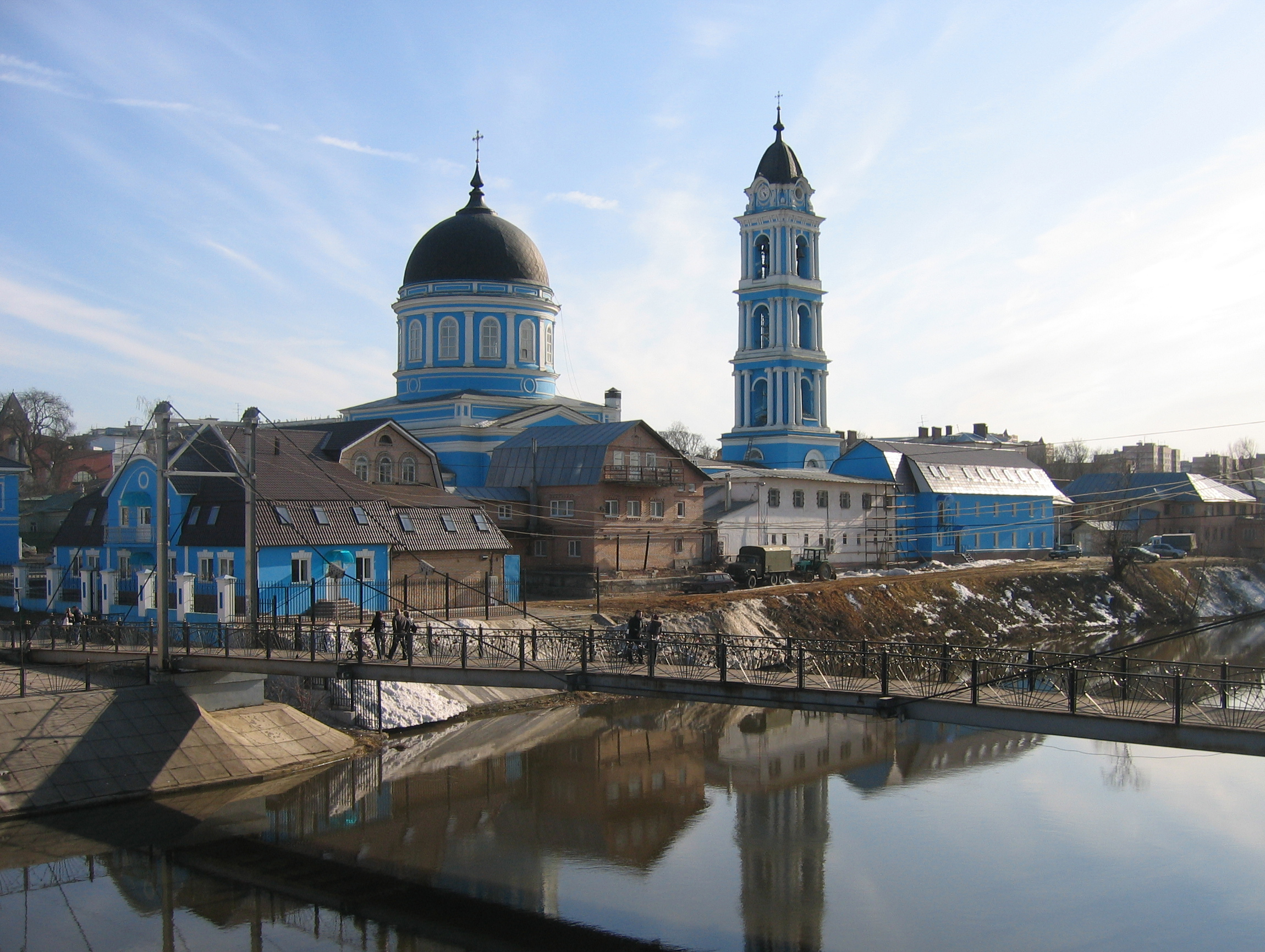 Epiphany Cathedral in Noginsk, Russia